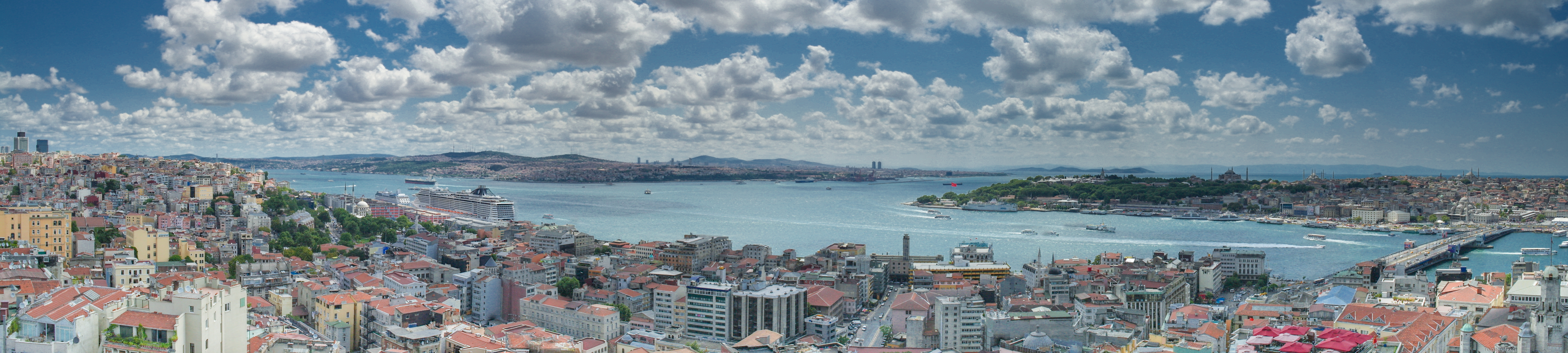 This panoramic view was taken from the Galata Tower in Istanbul